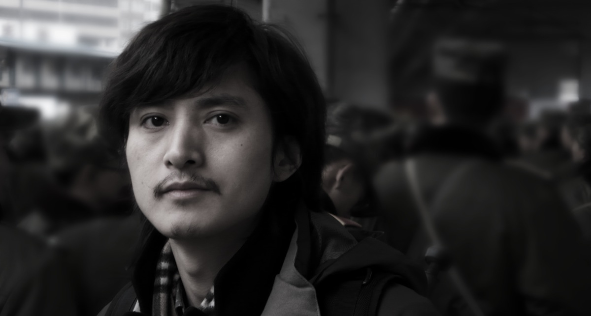 Director's Headshotː Lixin Fan